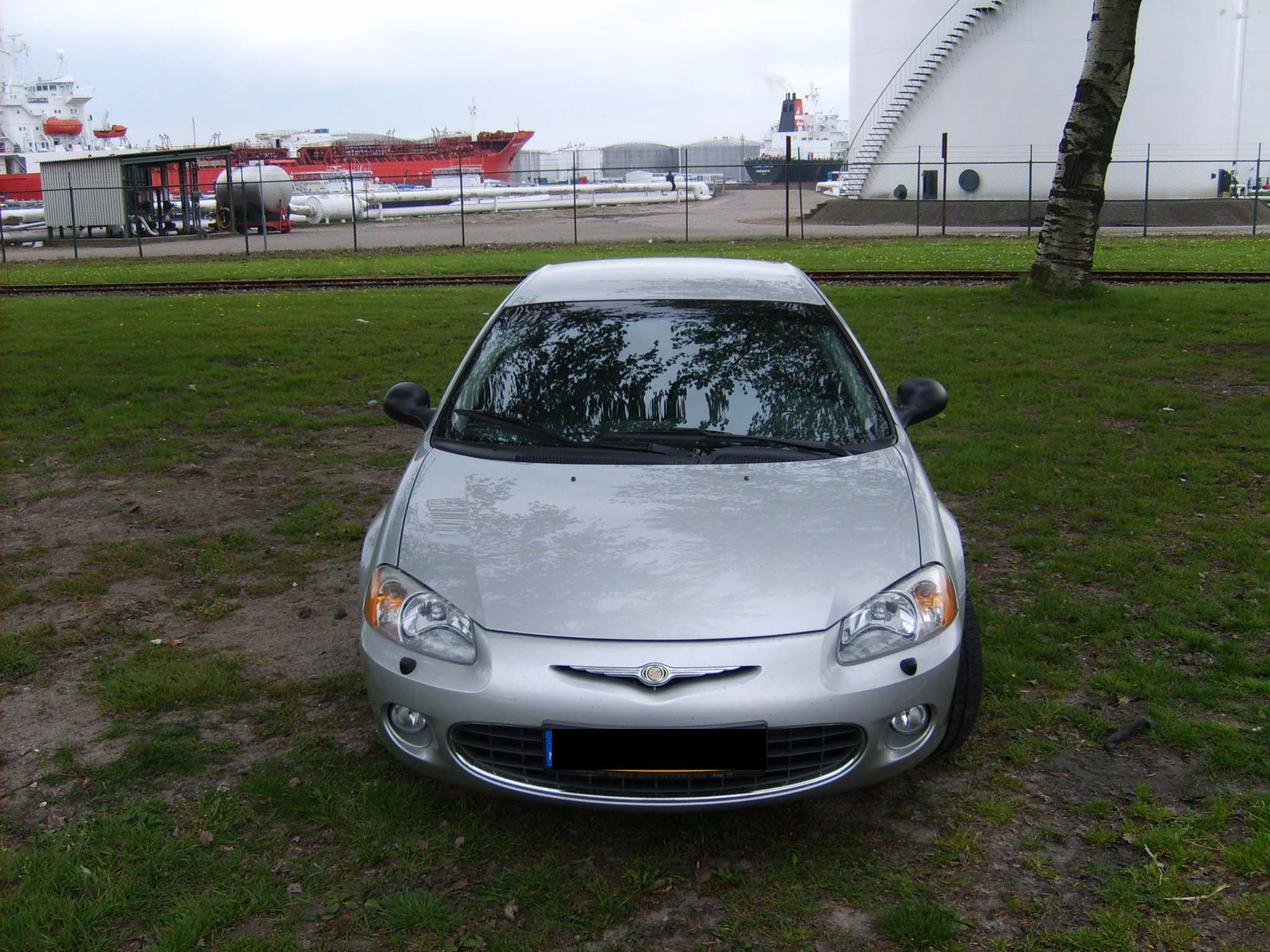 Chrysler Sebring